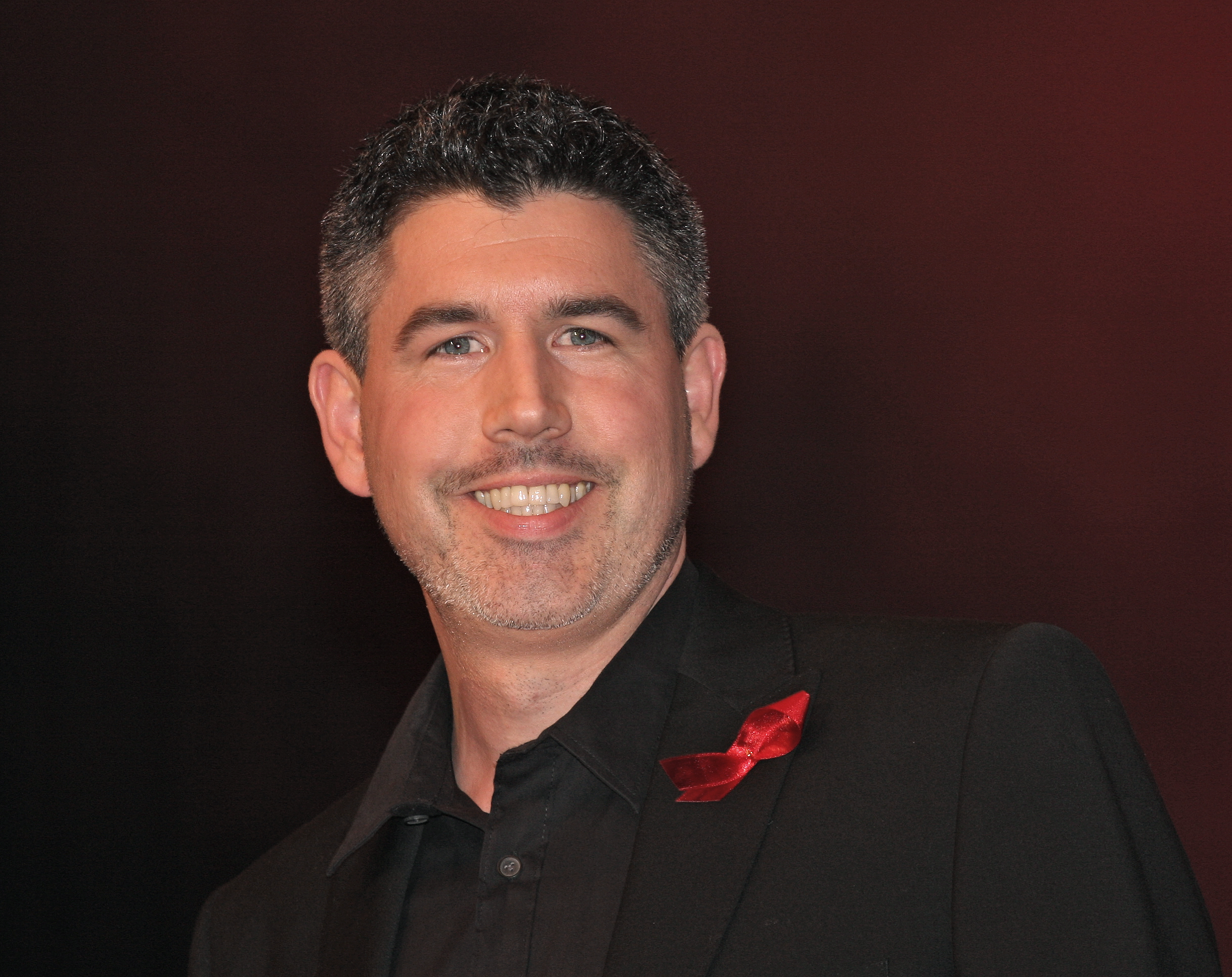 Paul Reeves, english opera singer, performing at the “cover me“ charity concert in Cologne